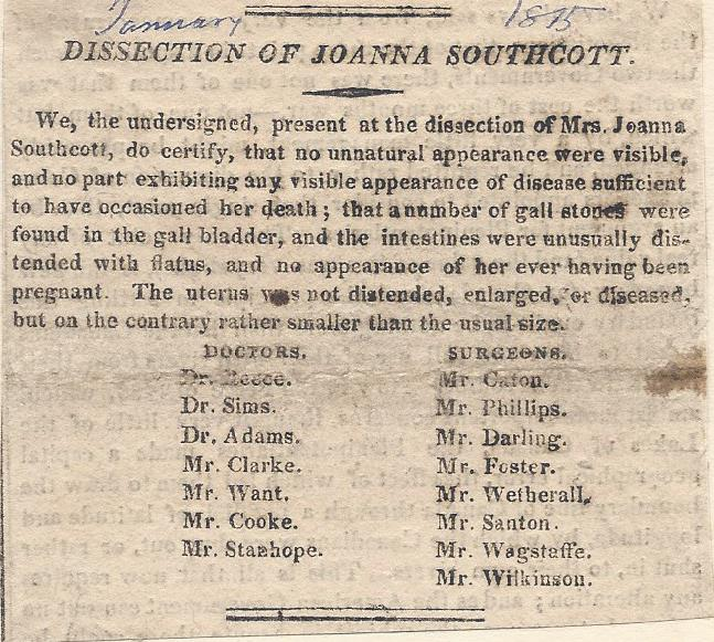 Report of the Dissection of Joanna Southcott. January 1815. Thew Weekly Messenger Compendium. London.